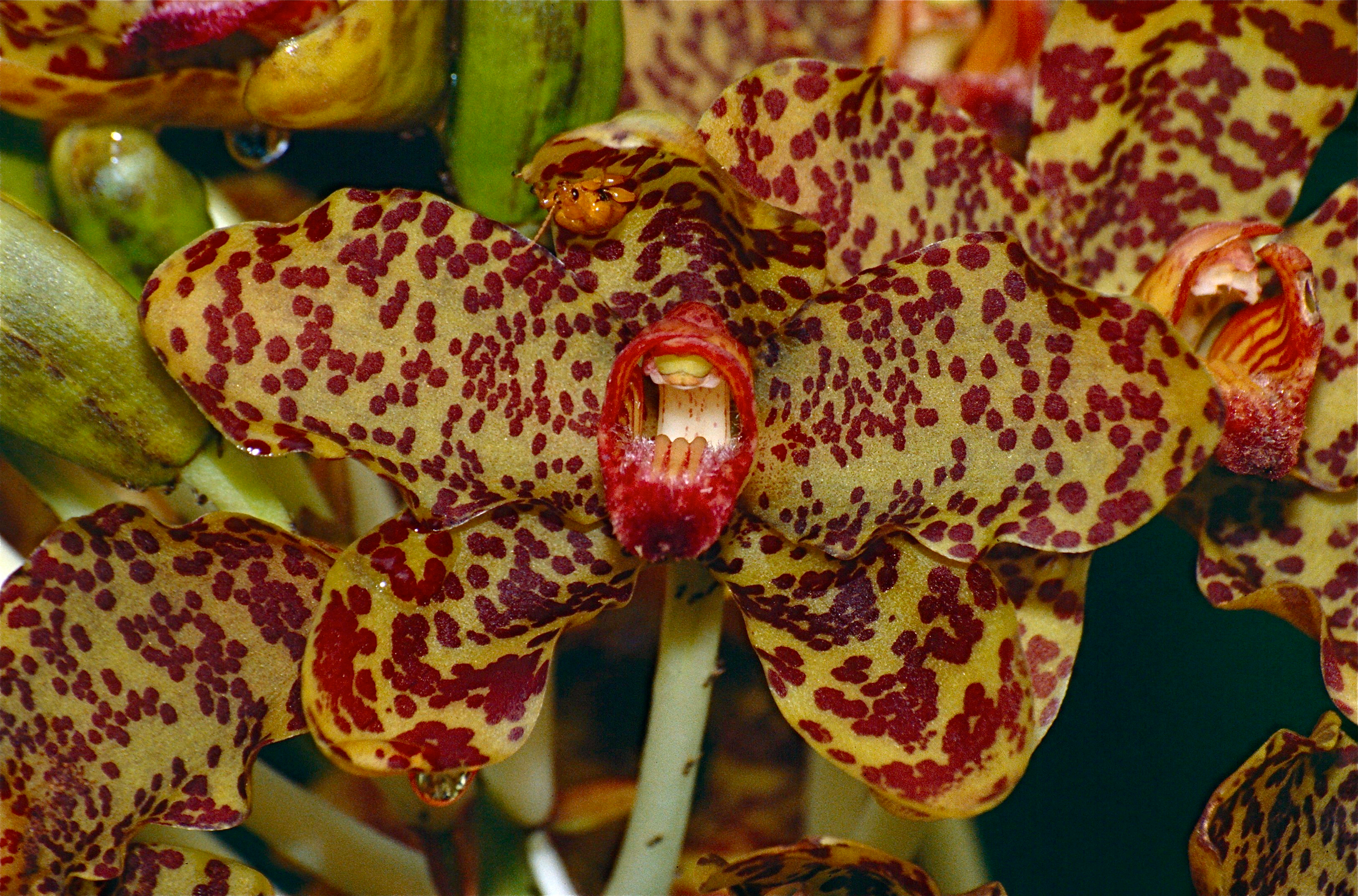 Sepilok Orangutan Rehabilitation Centre, Sabah, MALAYSIA Scanned slide from 2001